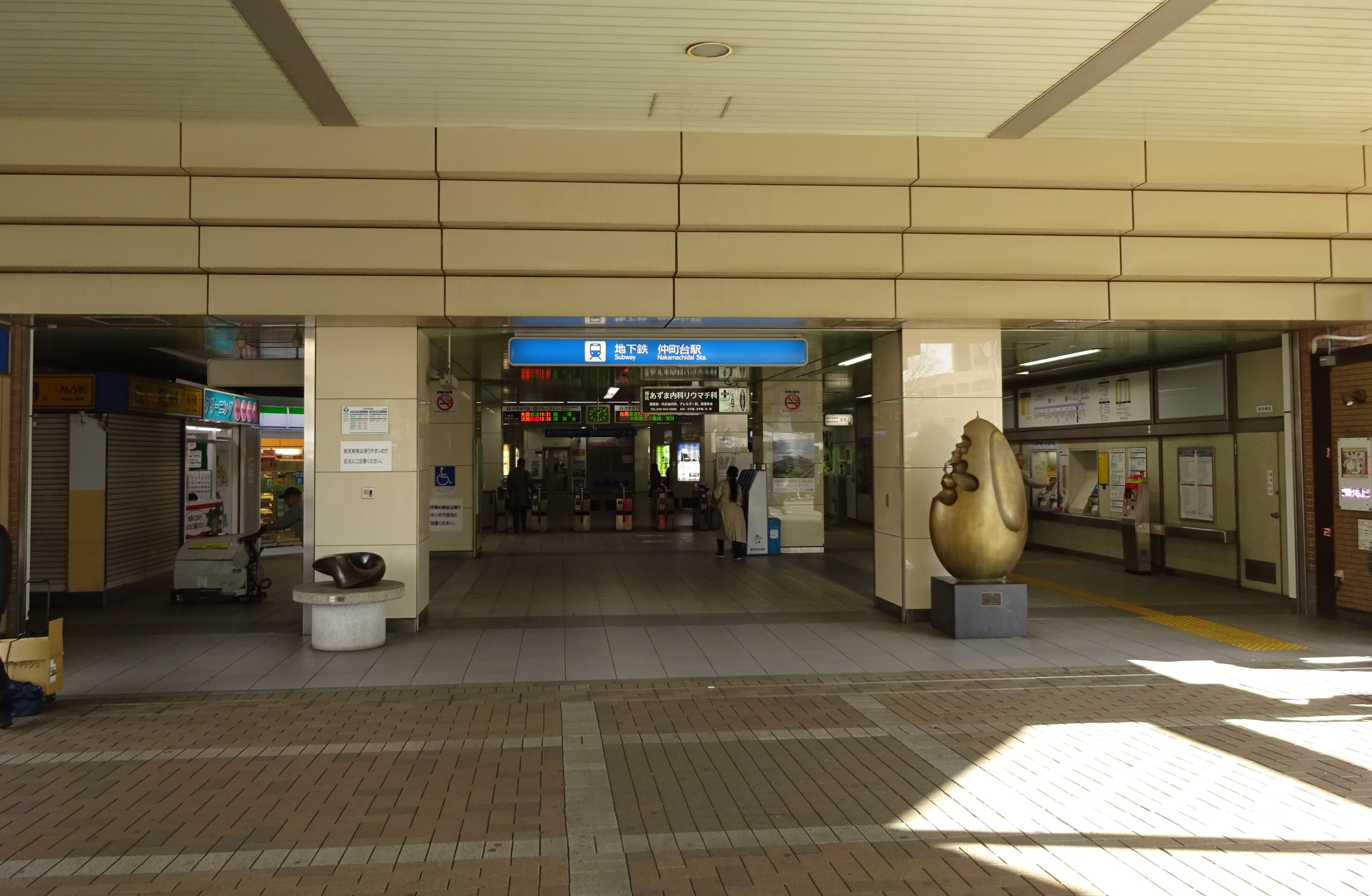 Nakamachidai Station